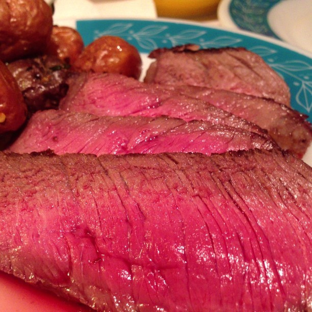 Sliced chateaubriand steak (close-up) on a Pyrex plate with a side of roasted potatoes.